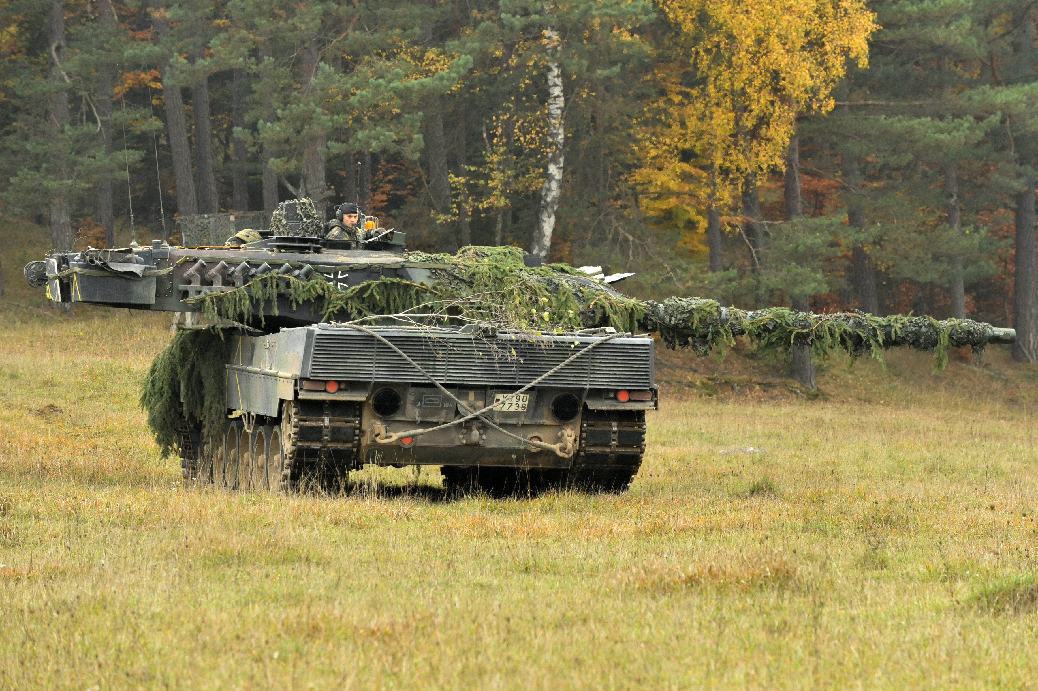 A German Army Leopard II tank assigned to the 104th Panzer Battalion, scans the battlefield at the Joint Multinational Readiness Center during Saber Junction 2012 in Hohenfels, Germany, Oct. 25, 2012. The U.S. Army Europe's exercise Saber Junction trains U.S. personnel and 1800 multinational partners from 18 nations ensuring multinational interoperability and an agile, ready coalition force. (U.S. Army photo by Markus Rauchenberger/Released)